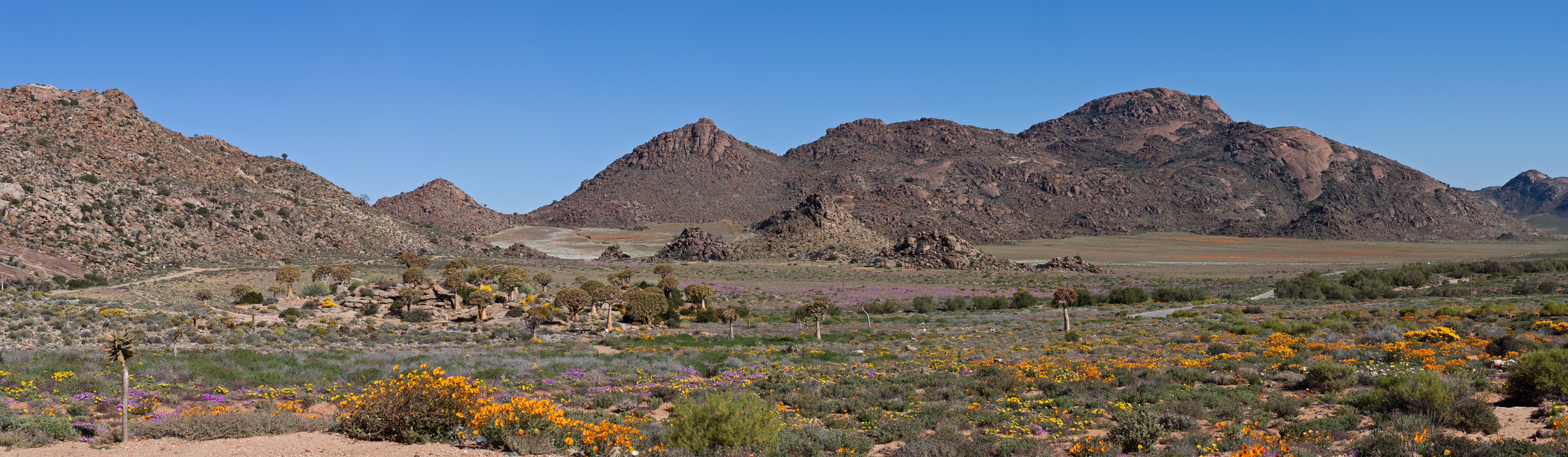 Typical landscape of Goegap Nature Reserve, South Africa, during the spring wildflower season.